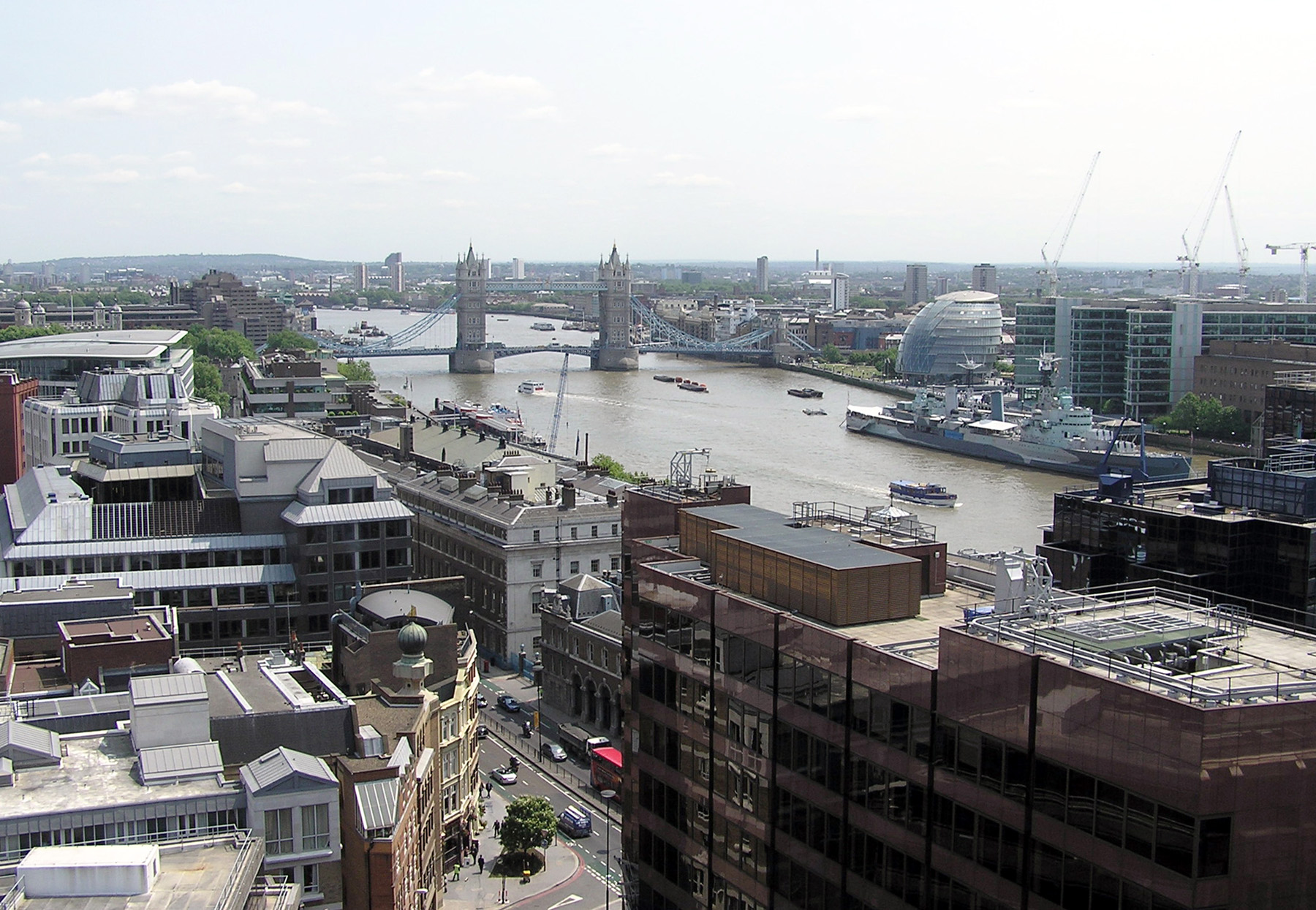 View of Tower bridge, looking east, from the viewing platform of the Great Fire of London Monument. City Hall is shaped like a motorcycle helmet, below it is HMS Belfast. Photographed by Adrian Pingstone in June 2005 and released to the public domain.